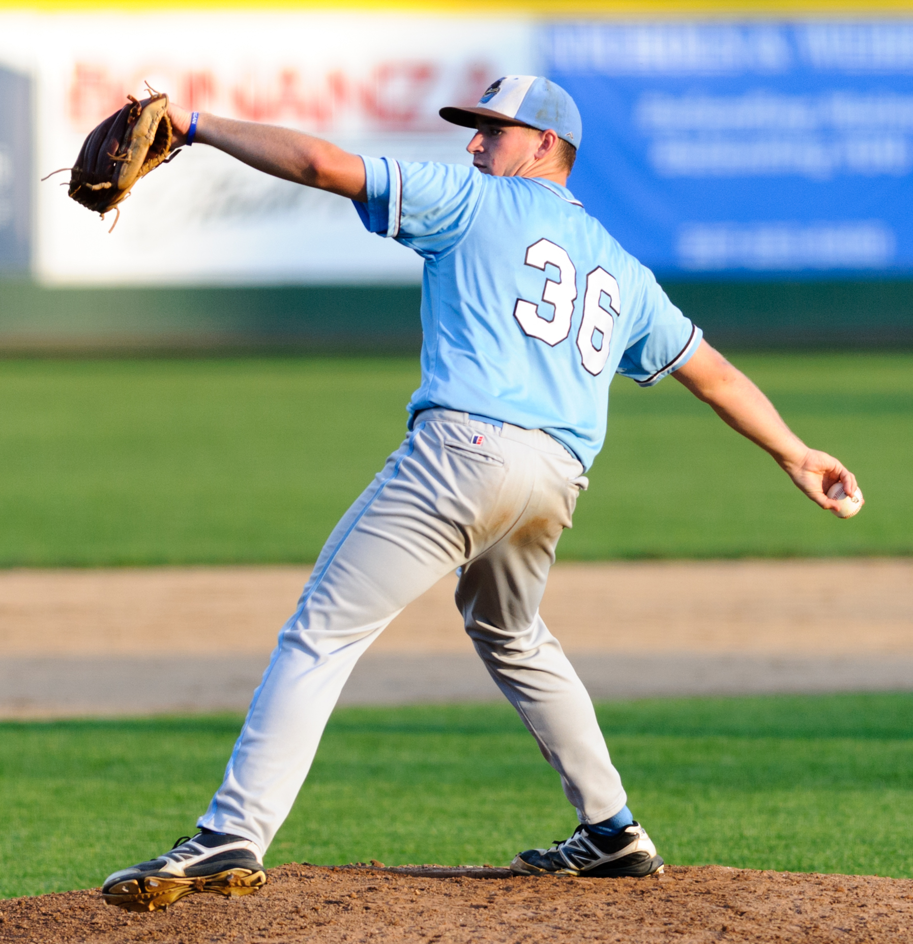 Evan Phillips delivers a pitch for the Laconia Muskrats during a 2013 game in Sanford, Maine